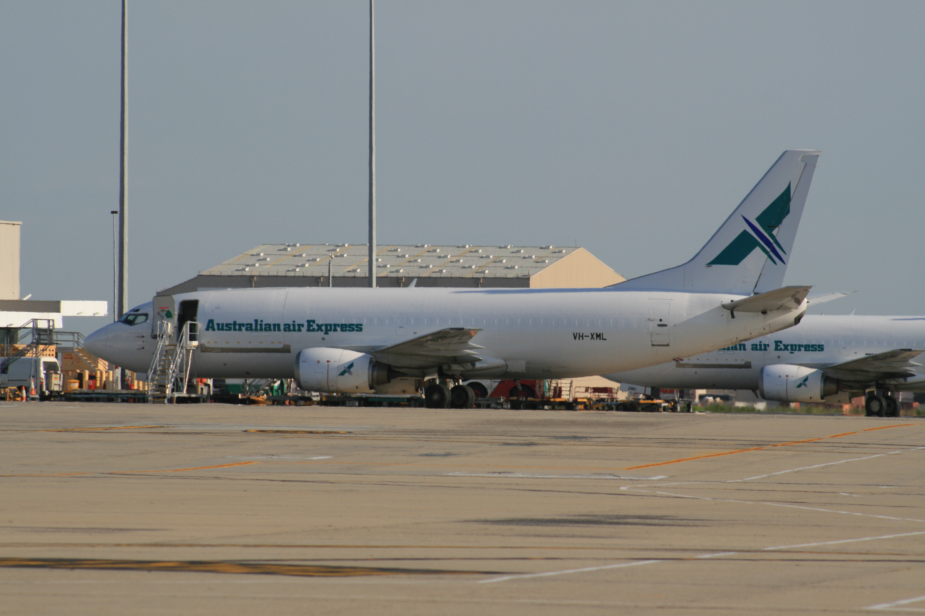 One of four Boeing 737-300 freighters operated by Qantas subsidiary Express Freighters Australia. Digital photo of VH-XML taken by YSSYguy at Melbourne International Airport.